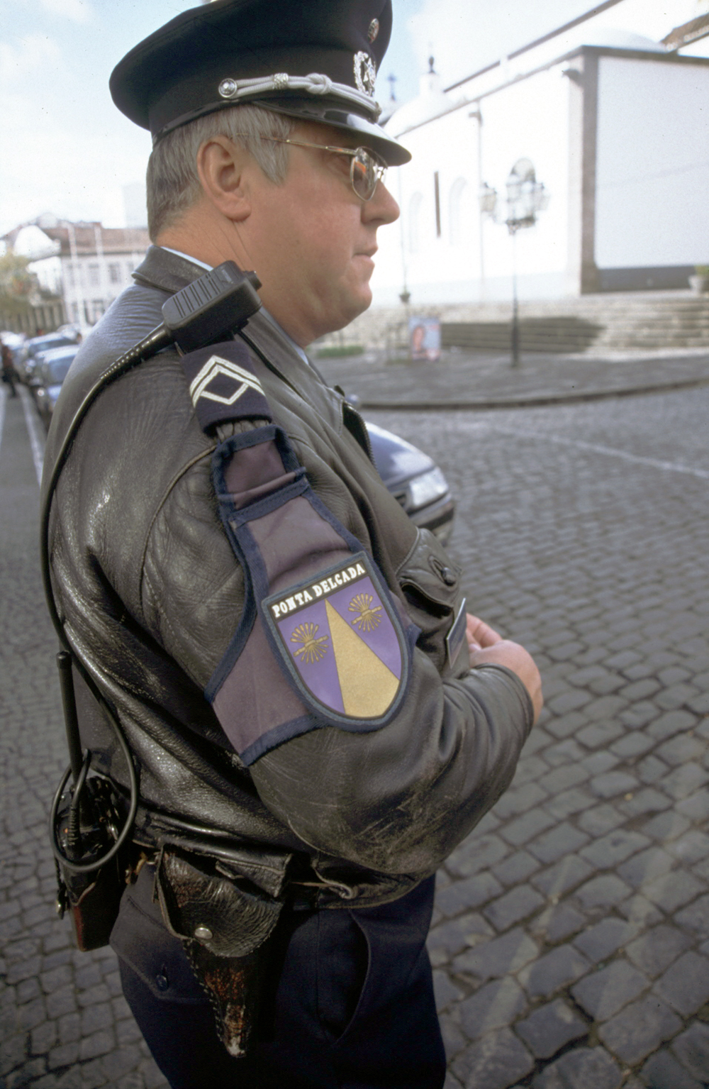 Sao Miguel island - The Azores (Portuguese Public Security Police officer)